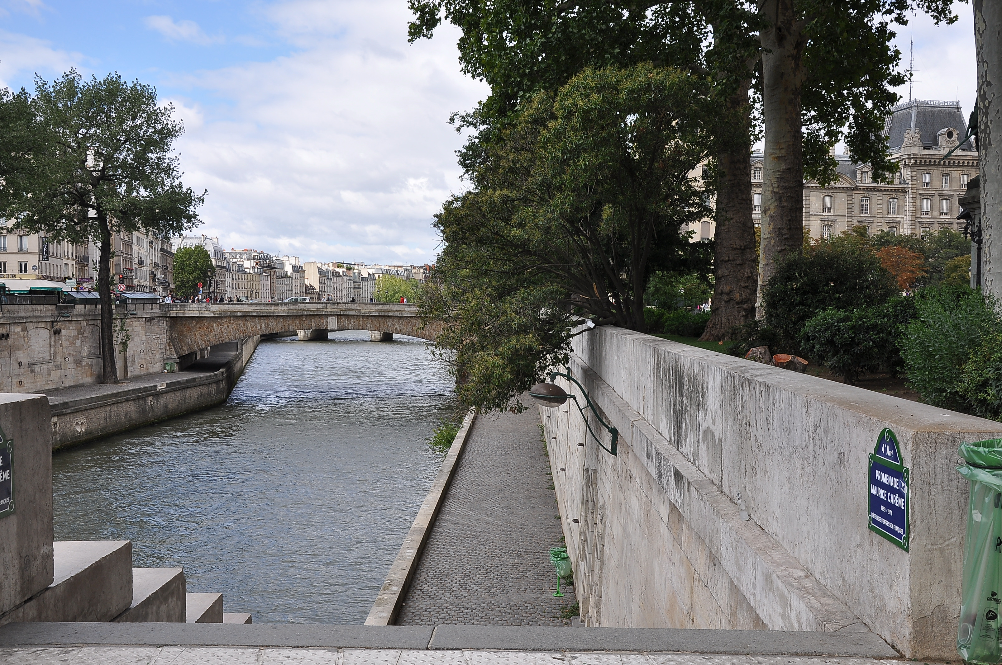 View of the bridge Petit Pont with the footwalk Promenade Maurice-Carême in Paris 4th arrondissement, France.